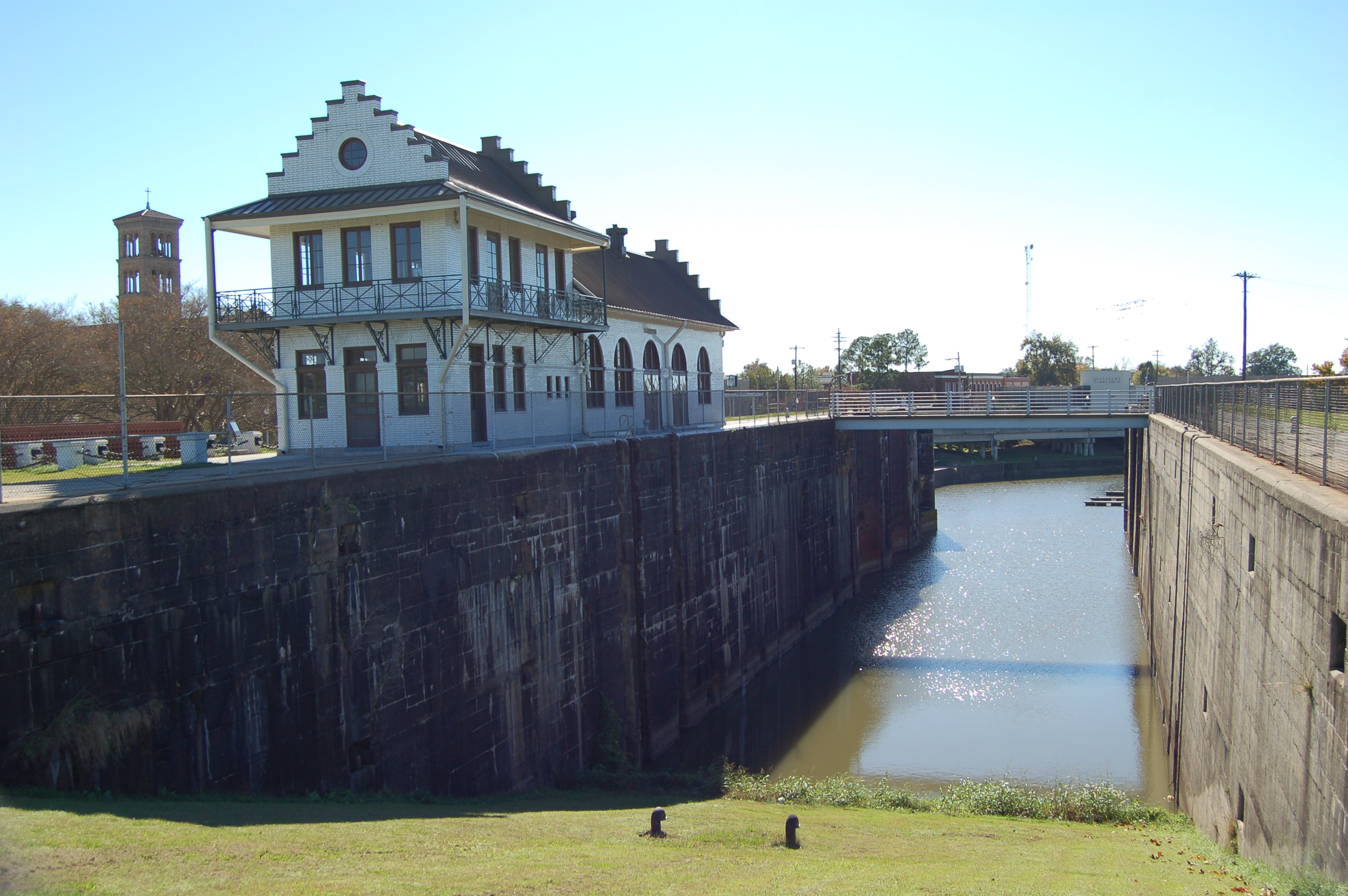 Bayou Plaquemine Lock